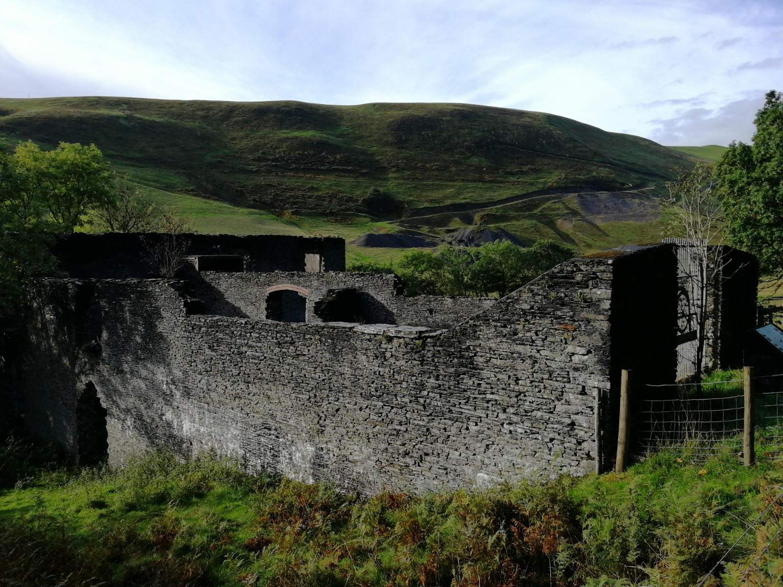 Ruins of Pont Ceunant Power Station, Ceredigion, the eastern side from the north-east